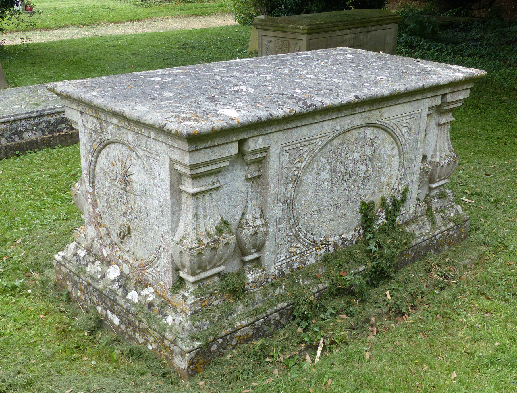 . The tomb of Gilbert Heathcote-Drummond-Willoughby, 1st Earl of Ancaster, and his wife Lady Evelyn Elizabeth Gordon (daughter of Charles Gordon, 10th Marquess of Huntly). Situated to the rear of the Church of St. Michael and All Angels, Edenham, Lincolnshire.